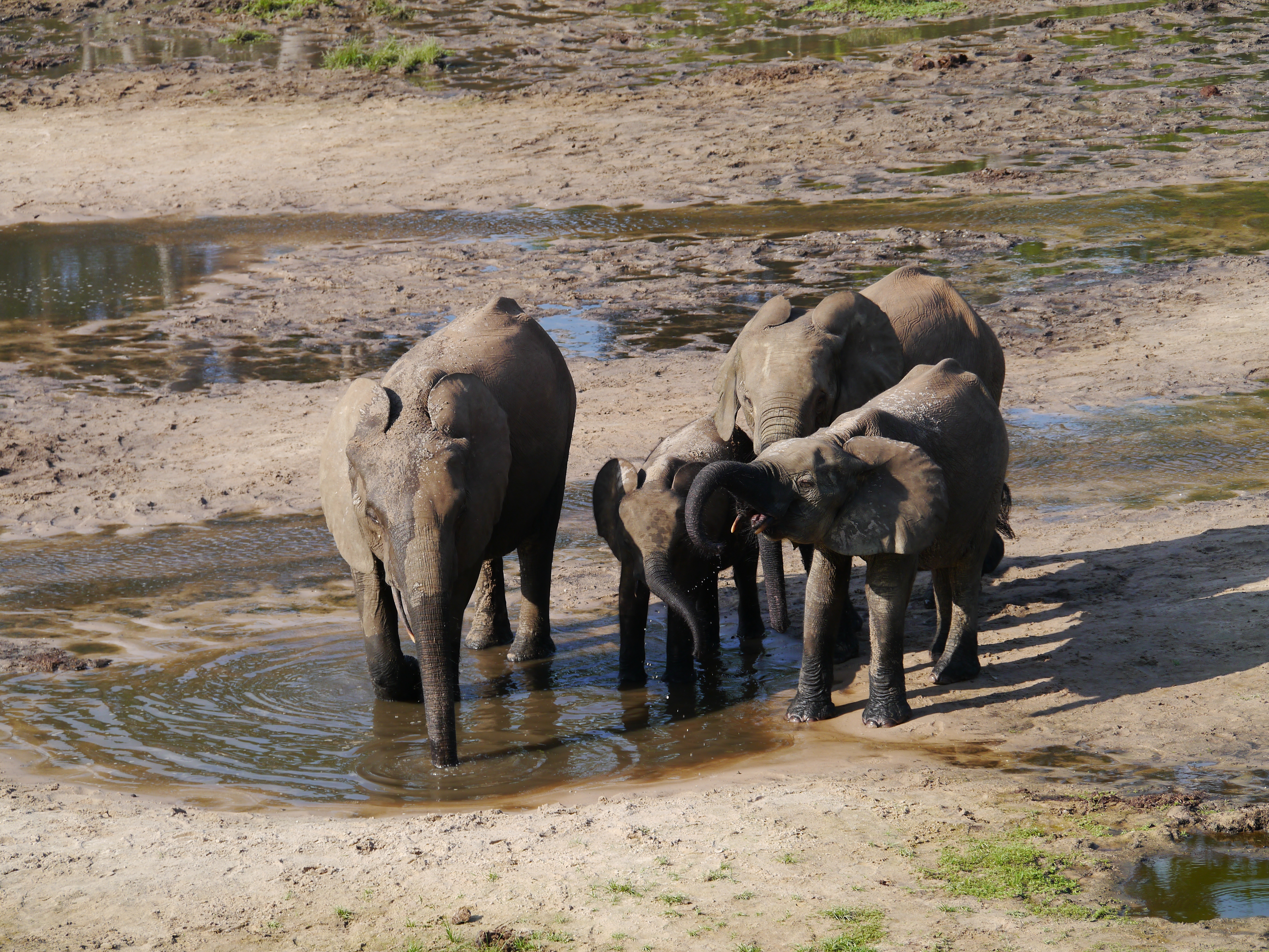 Credit: Daphne Carlson Bremer/USFWS